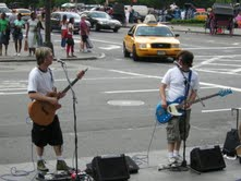 Heth and Jed busking on 5th Avenue, New York City